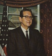 Former United States Representative from California Craig Hosmer. Campaign postcard (detail), 1968, Collection of U.S. House of Representatives